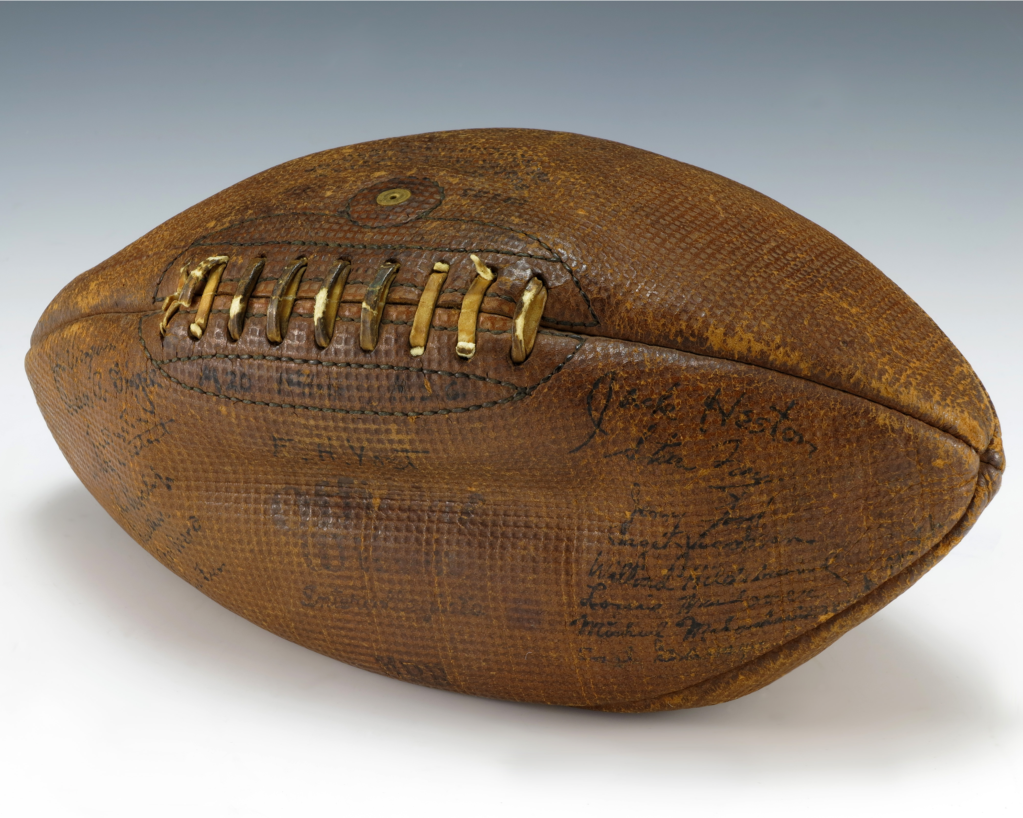 Dark brown, leather football signed by the 1932 University of Michigan football team. Signatures include such notables as athletic director F.H. Yost and future President Gerald R. Ford.